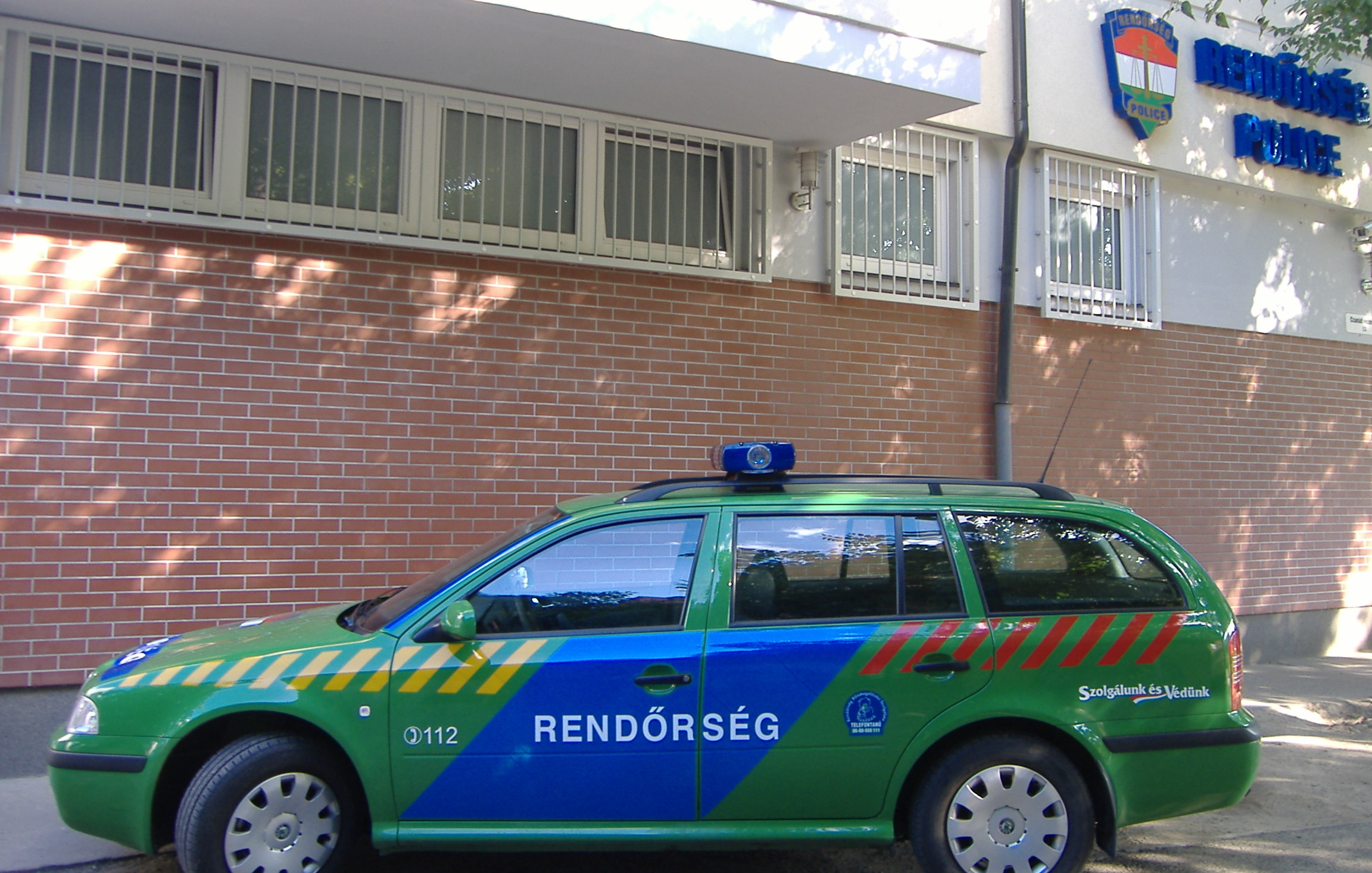 Police car in Makó, Hungary. The vehicle was previously used by the Border Guards - hence its green colour - but in 2008 Police and Border Guards were merged into a single national corps, thus the car was re-labelled.